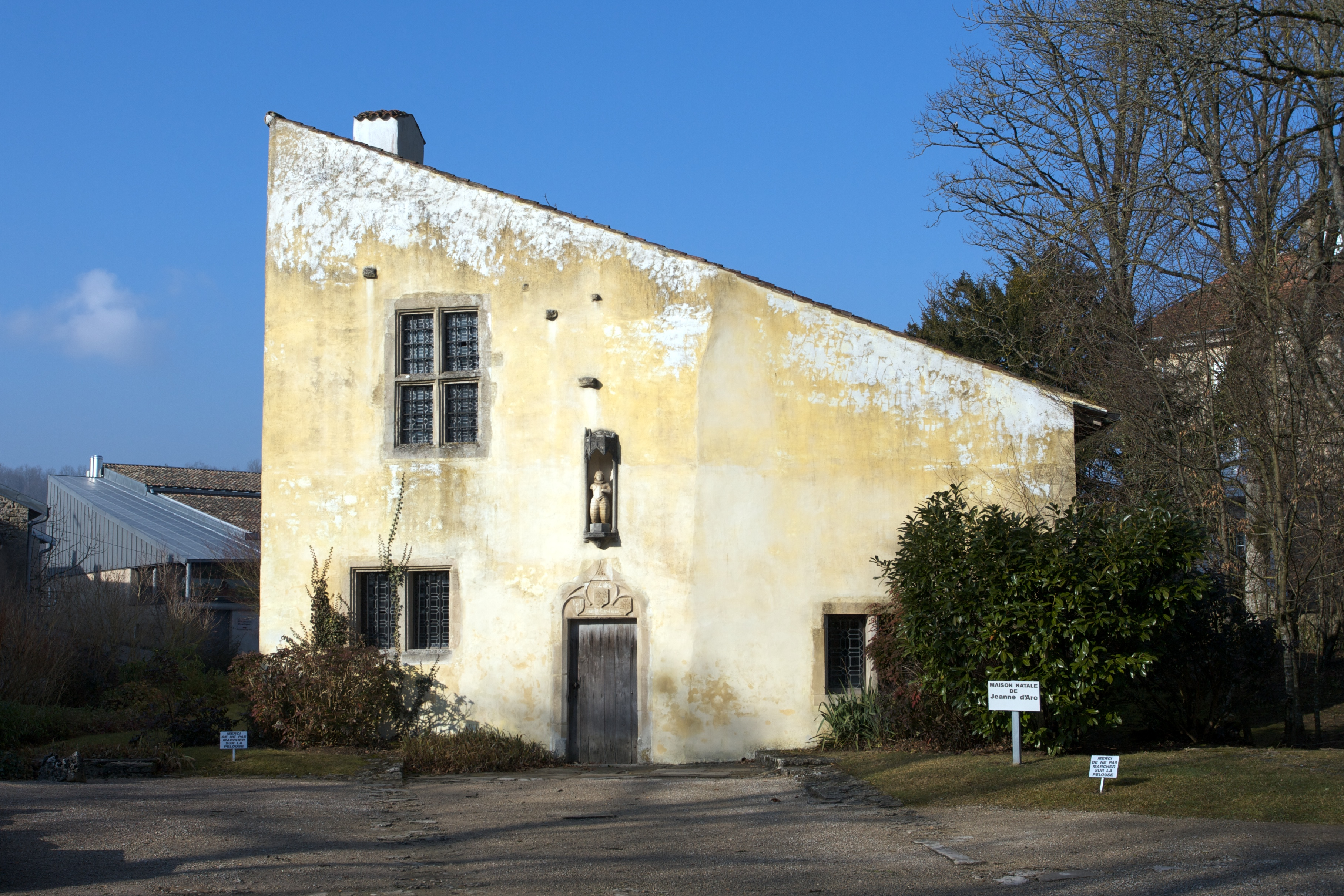 Joan of Arc's house of birth